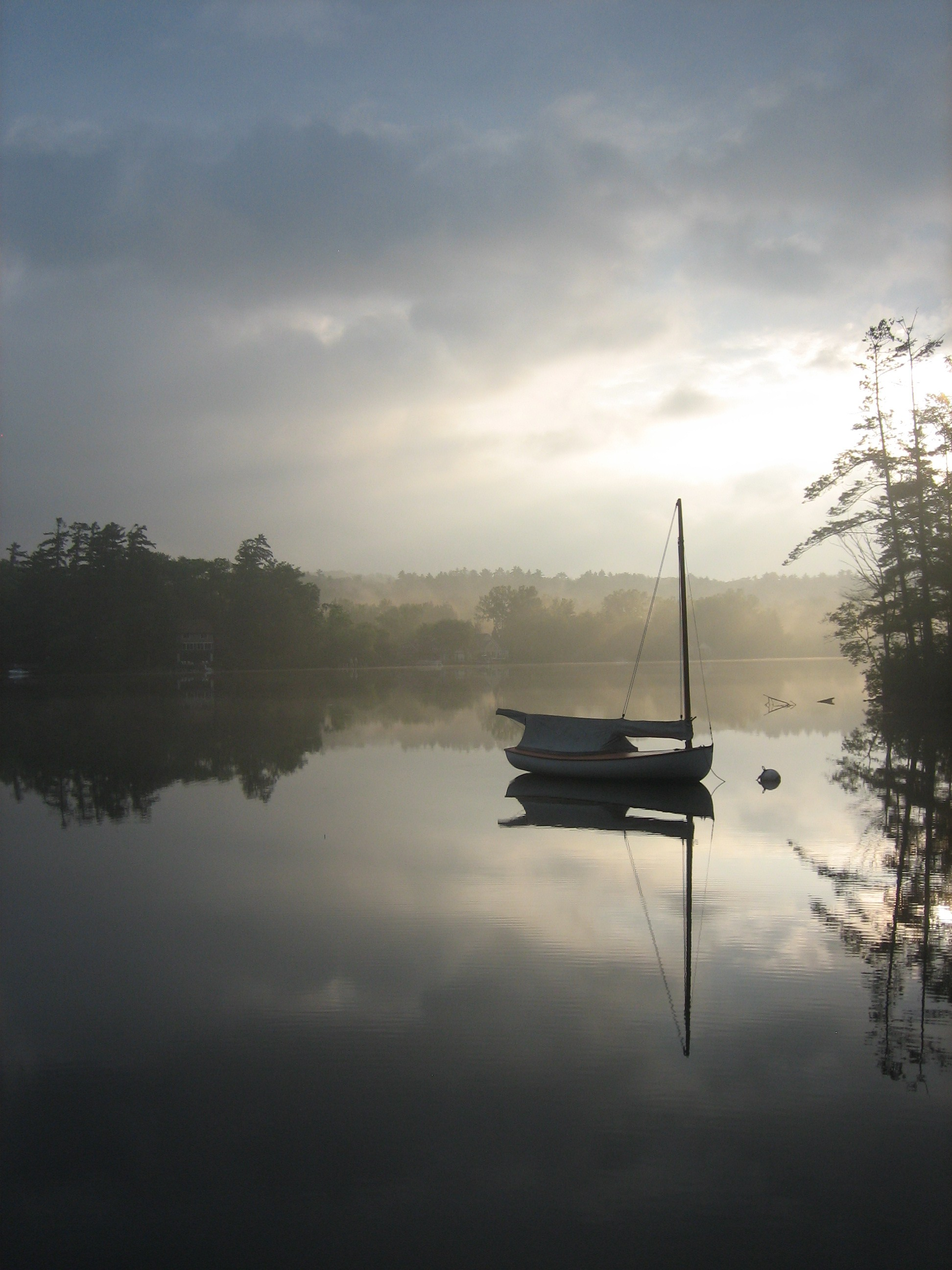 Lake Buel, Massachusetts